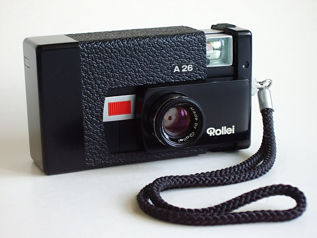 Rollei A26. Automatic exposure. Manual focus. Made for use of type 126 Instamatic film cartridges. Special sliding mechanism both for film transport and lens cover.